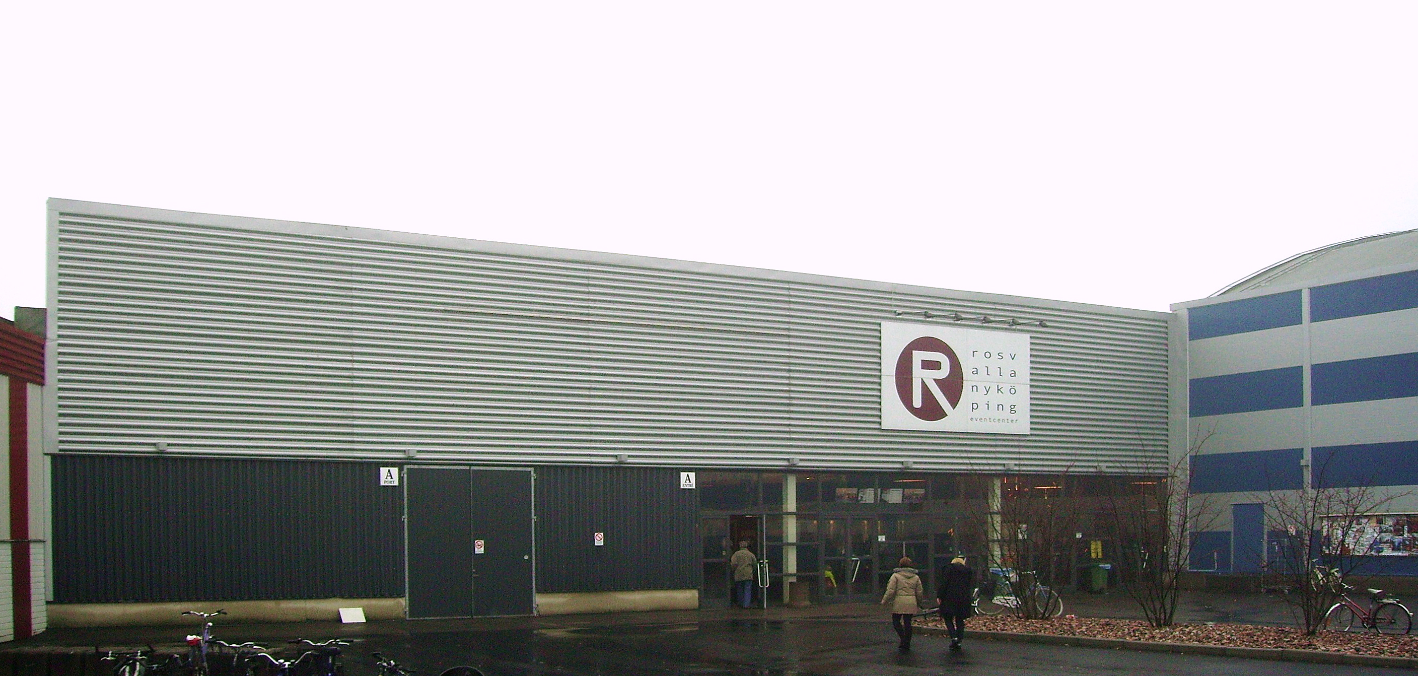 Picture of Rosvalla in Nyköping, Sweden